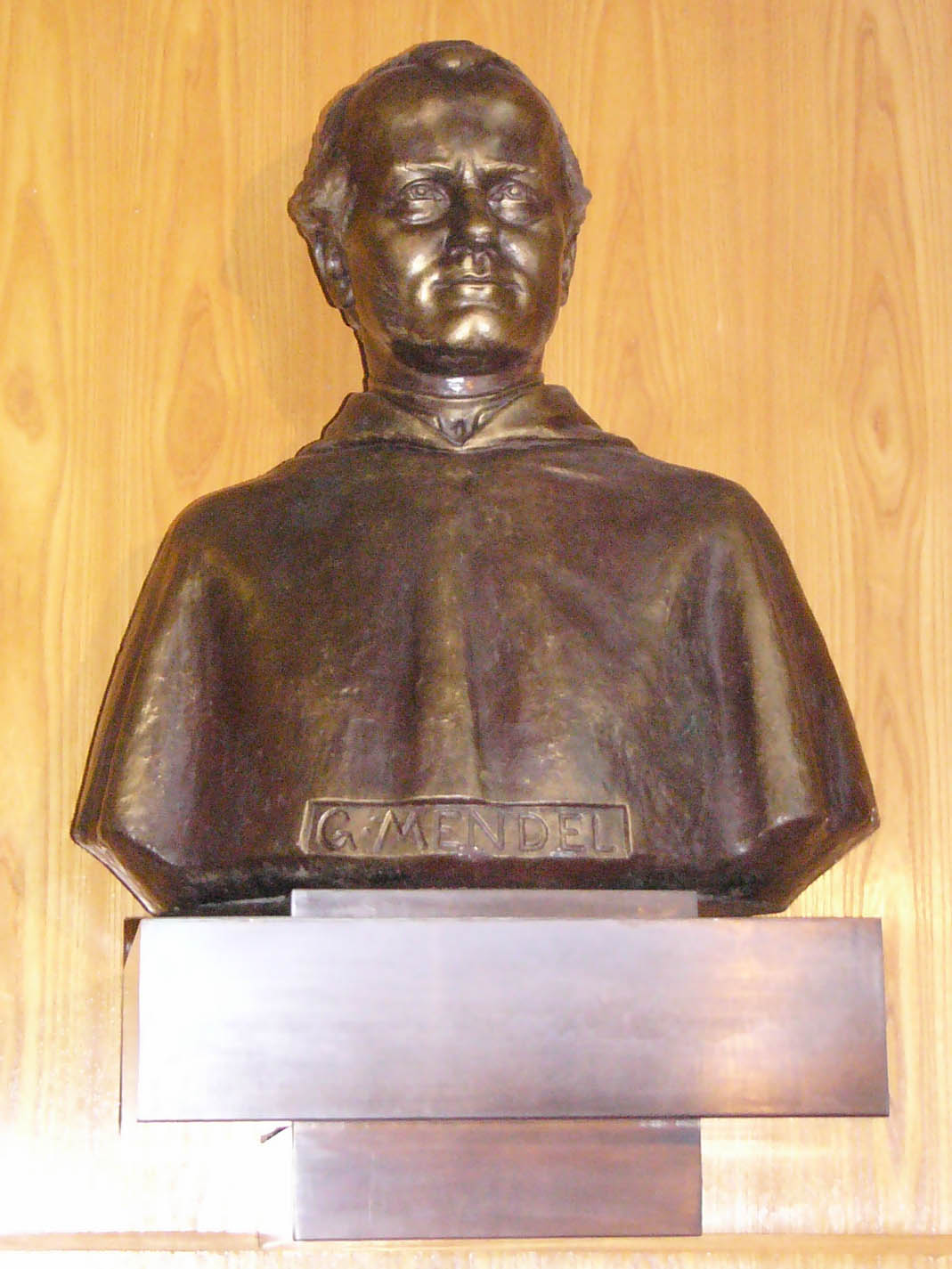 Bust of Gregor Johann Mendel at Mendel University of Agriculture and Forestry in Brno, the Czech Republic.